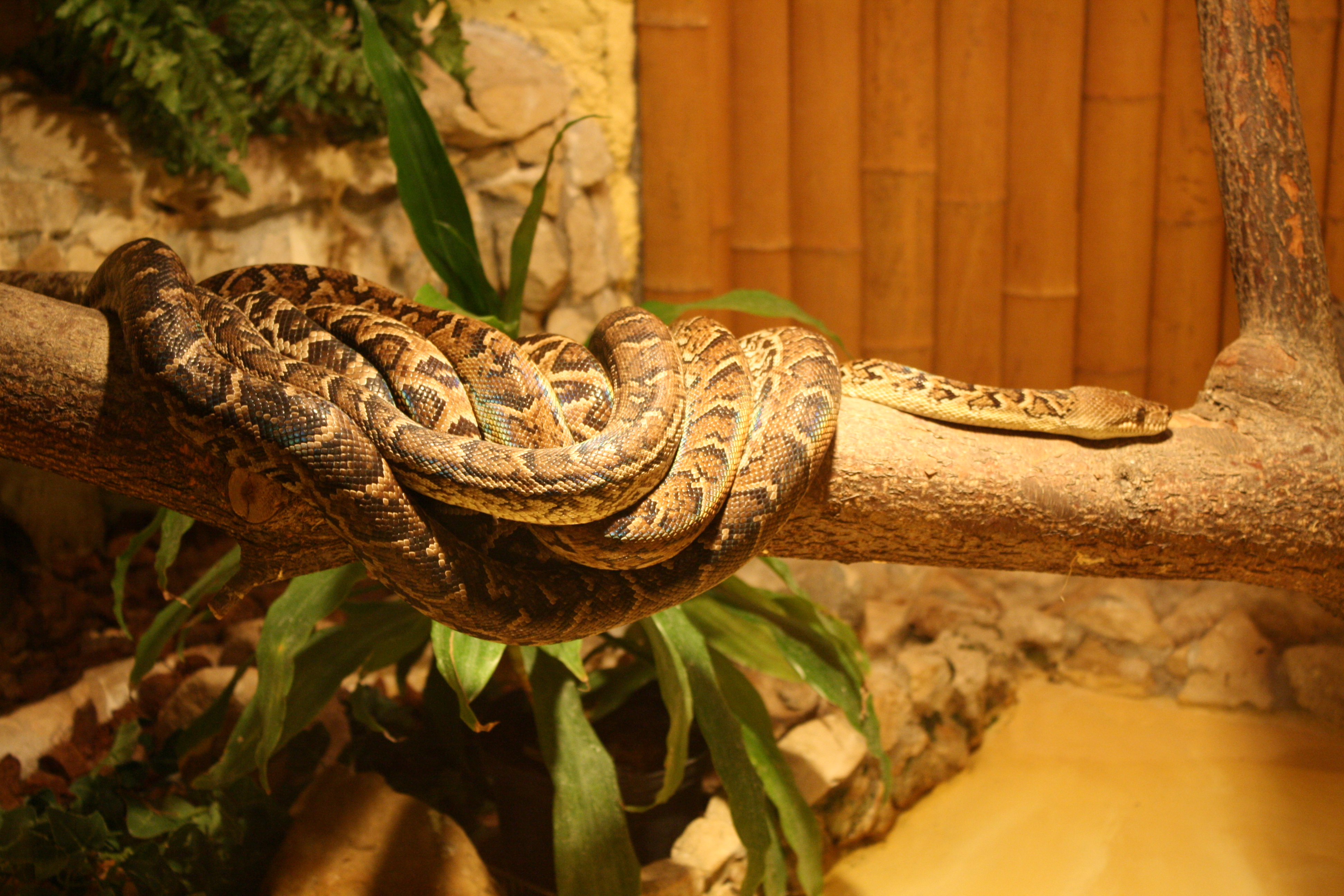 Cuban boa (Epicrates angulifer) in zoological garden in Gdańsk.